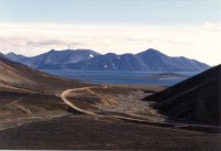 Road to Novo Chaplino